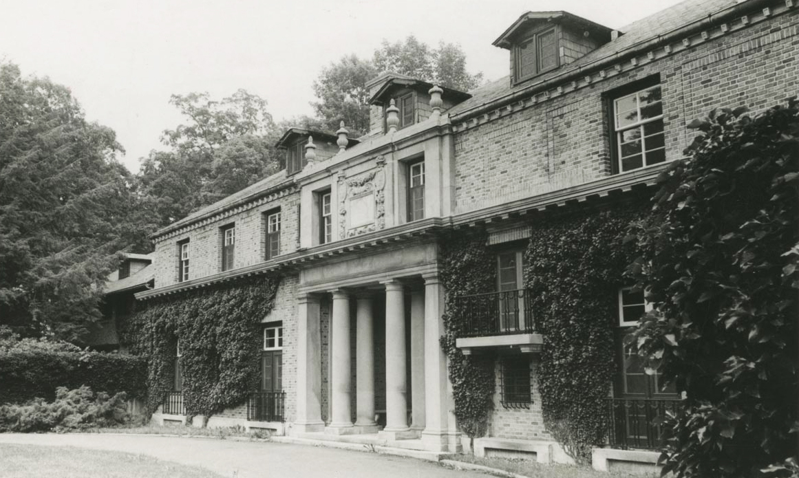 CAMP-WOODS - AKA AS COLLENBROOK; BUILT BETWEEN 1910 AND 1912 AND DESIGNED BY HOWARD VAN DOREN SHAW. BRICK AND LIMESTONE IN AN ITALIANATE- GEORGIAN STYLE WITH A OPEN LOGGIA PORCH.